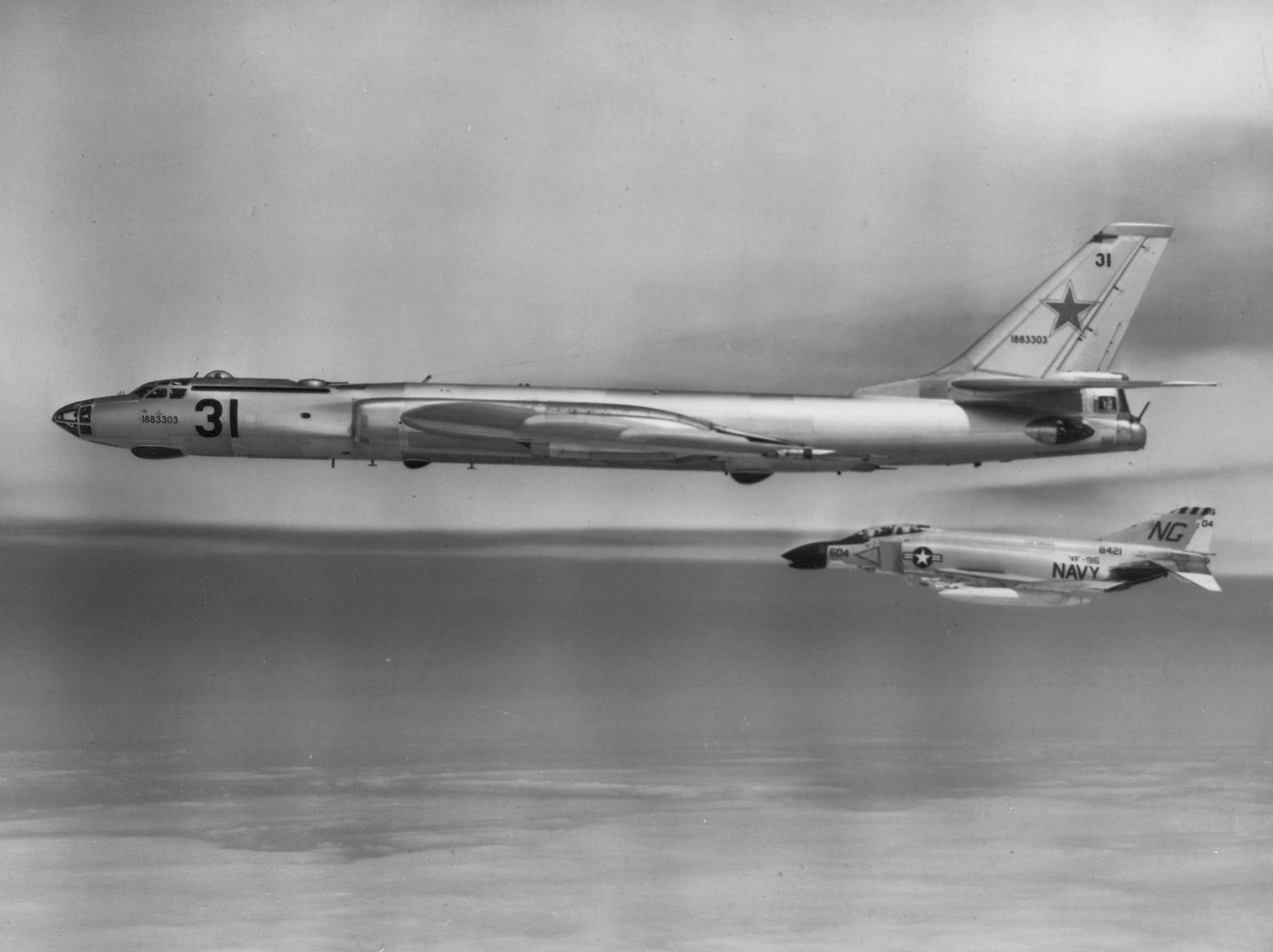 A U.S. Navy McDonnell F-4B-8-MC Phantom II (BuNo 148421) from Fighter Squadron VF-96 "Fighting Falcons" escorts a Soviet Tupolev Tu-16 (NATO reporting code "Badger"). VF-96 was assigned to Carrier Air Group 9 (CVG-9) aboard the aircraft carrier USS Ranger (CVA-61) for a deployment to the Western Pacific from 9 November 1962 to 14 June 1963. The F-4B 148421 crashed 360 km ESE of Naval Air Station Oceana, Virginia (USA) on 7 June 1971 following a structural failure and loss of control while in service with VF-101. Both crew were recovered.